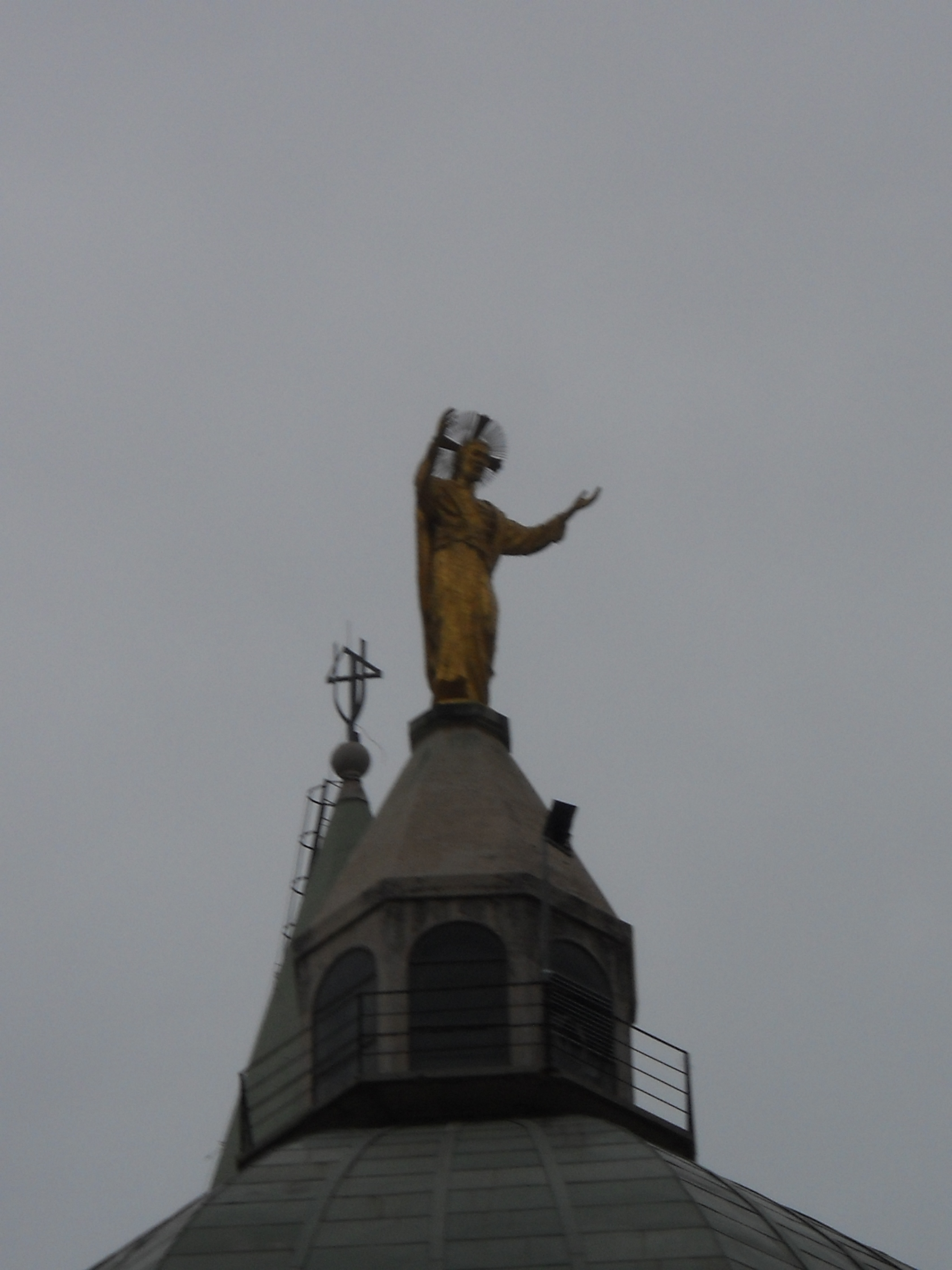 Statue of Jesus Christ on the Basilica del Sacro Cuore in Grosseto, Tuscany